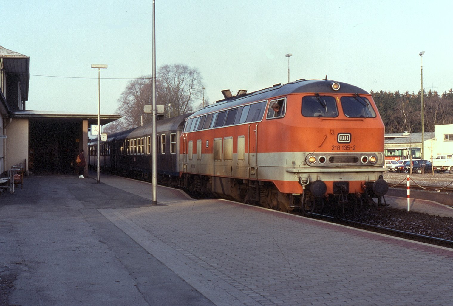 218.137 forming the haulage for train E6082, 09:49 Winterberg (Westf) to Bestwig on 29 March 1993.